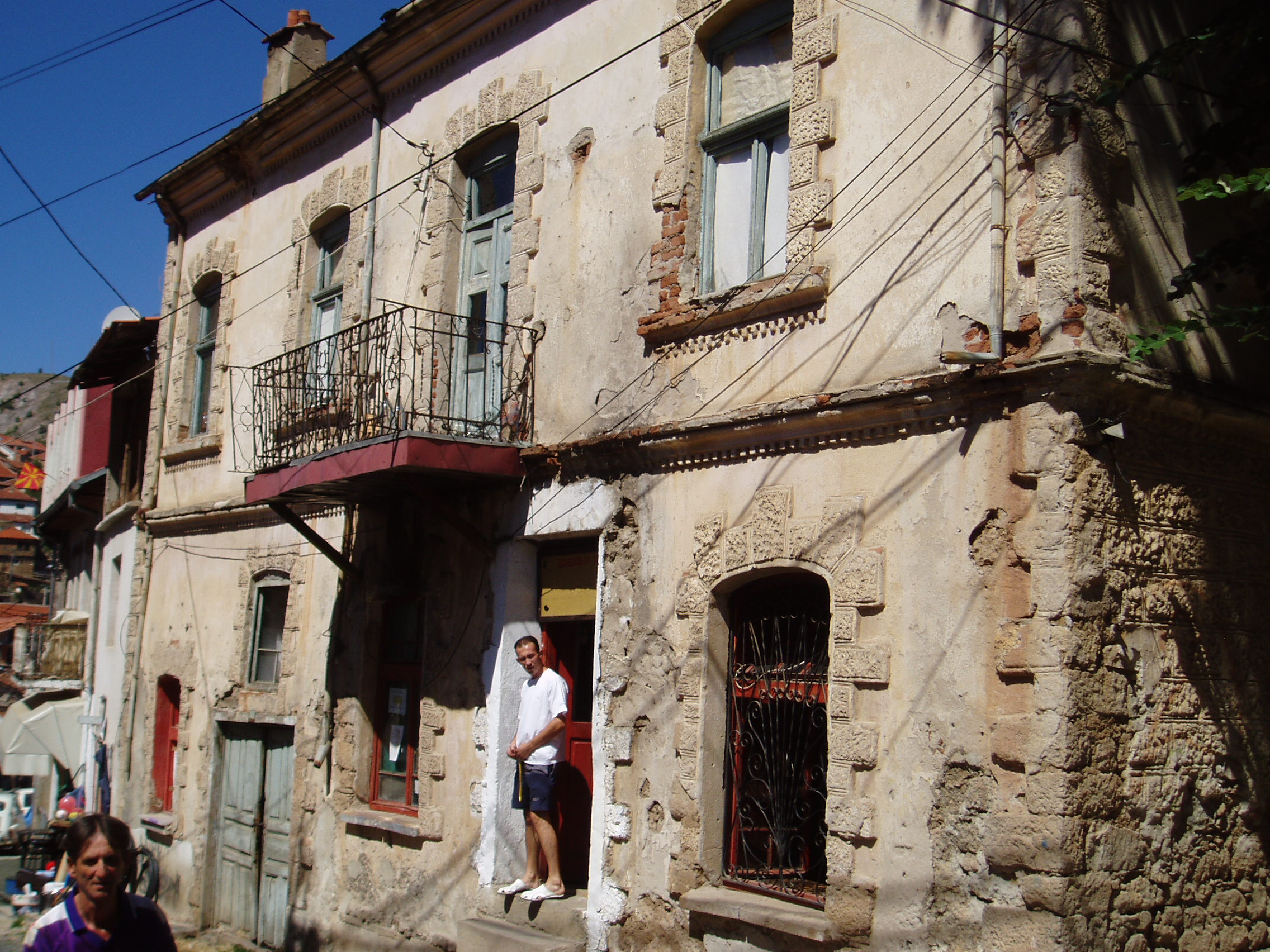 Old house in Kratovo, Republic of Macedonia.